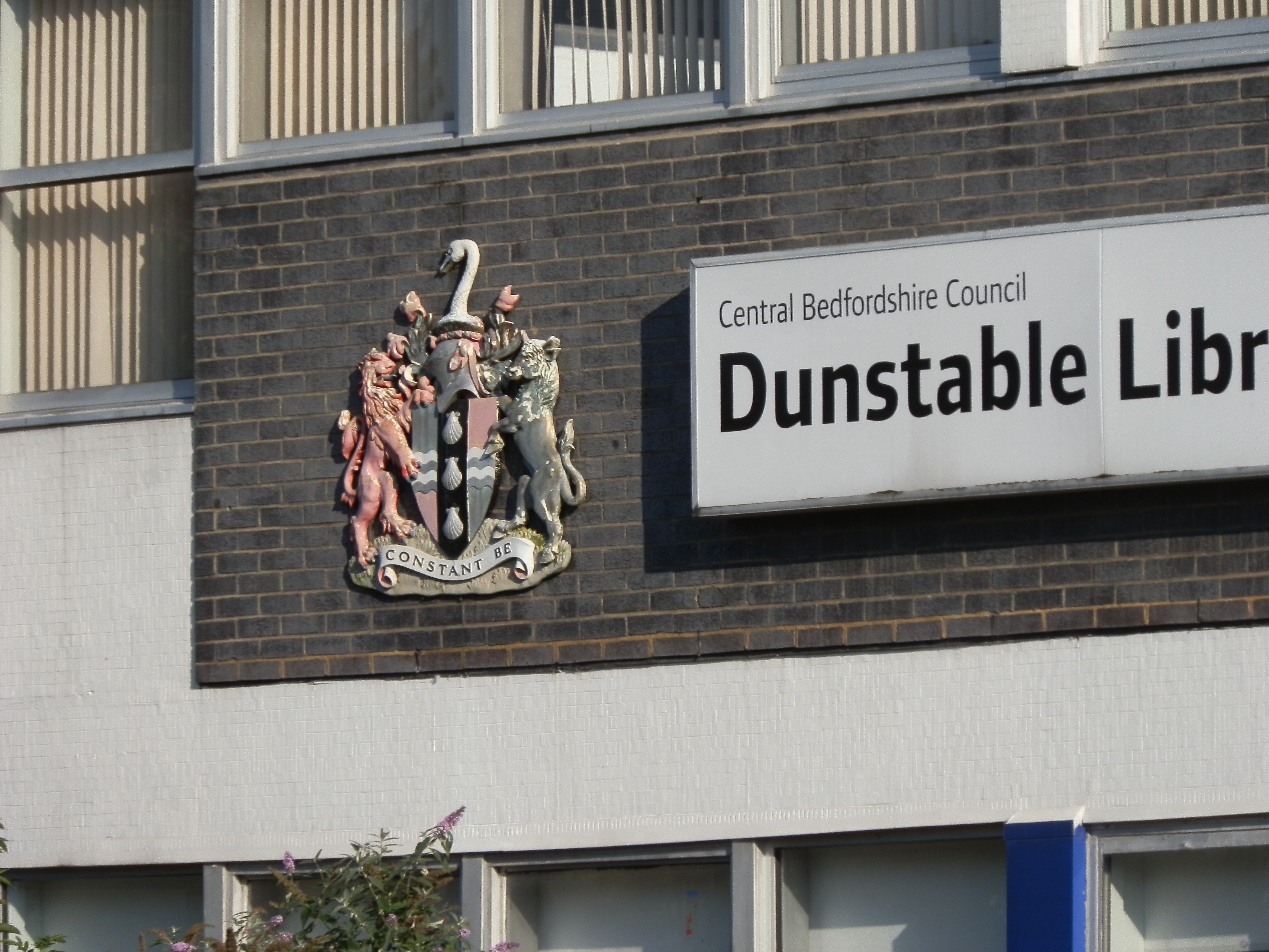 An image of the coat of arms of Bedfordshire County Council on the walls of Dunstable library.